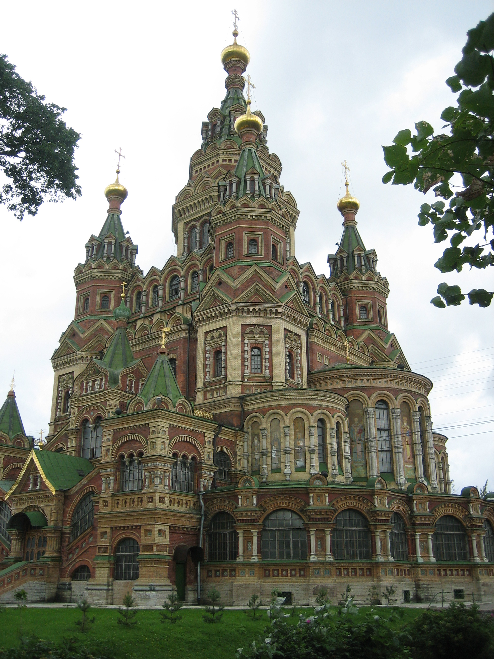 Peterhof (Russia), Cathedral of Peter and Pavel